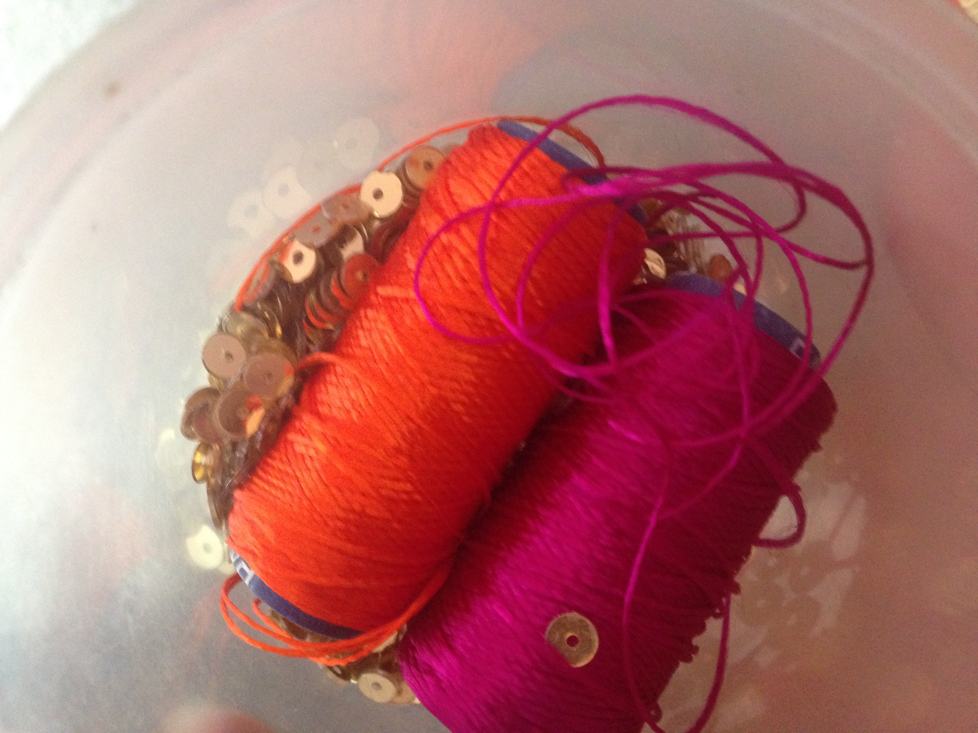 Silk threads used for embroidering Phulkari